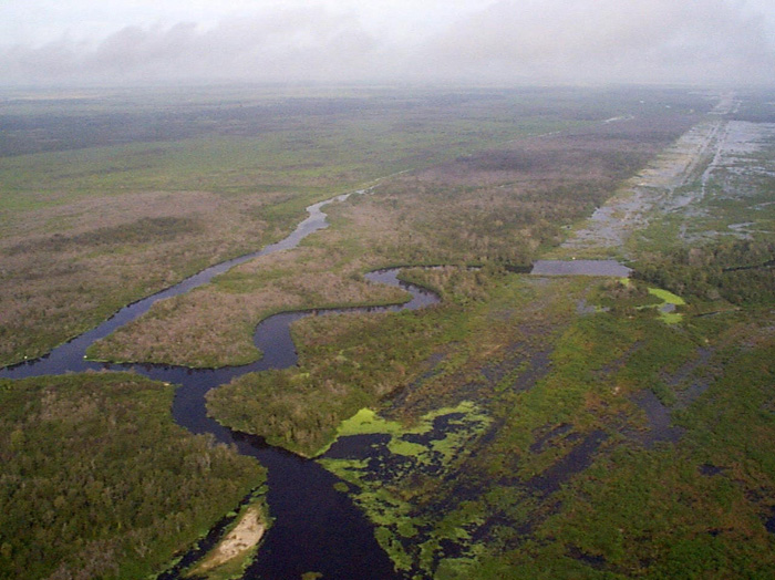 The C-38 canal backfilled next to a natural oxbow tributary of the Kissimmee River